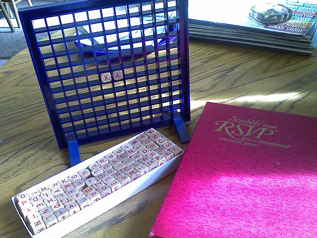 I have a habit of buying board games. I don't have a collection of Monopoly varieties or Trivial Pursuit editions but I do have a lot of obscure games. Many of them I've never heard of until buying them. This is the Scrabble brand RSVP three dimensional crosword game. The box has copyrights from 1966 and 1970. Players sit on either side of the board and start with one letter in the center. Player 1 picks any letter from the pool and plays it. If it is a complete word then they score the word using the points on the letter die (same value as Scrabble leters). Player 2 does the same on their side of the board. In the photo I had player one add X to the A in the center making AX. Player 2's side then has XA to work with. Defensive playing could be really important. We should probably play some of these games I find.